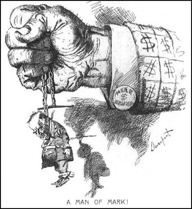 Homer Davenport's image of William McKinley as a man dependent on Mark Hanna